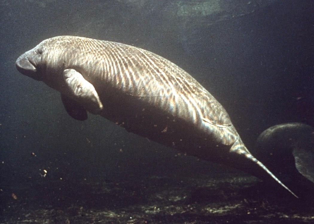 West Indian manatee (Trichechus manatus) at Merritt Island's National Wildlife Refuge in Florida next to Kennedy Space Center.